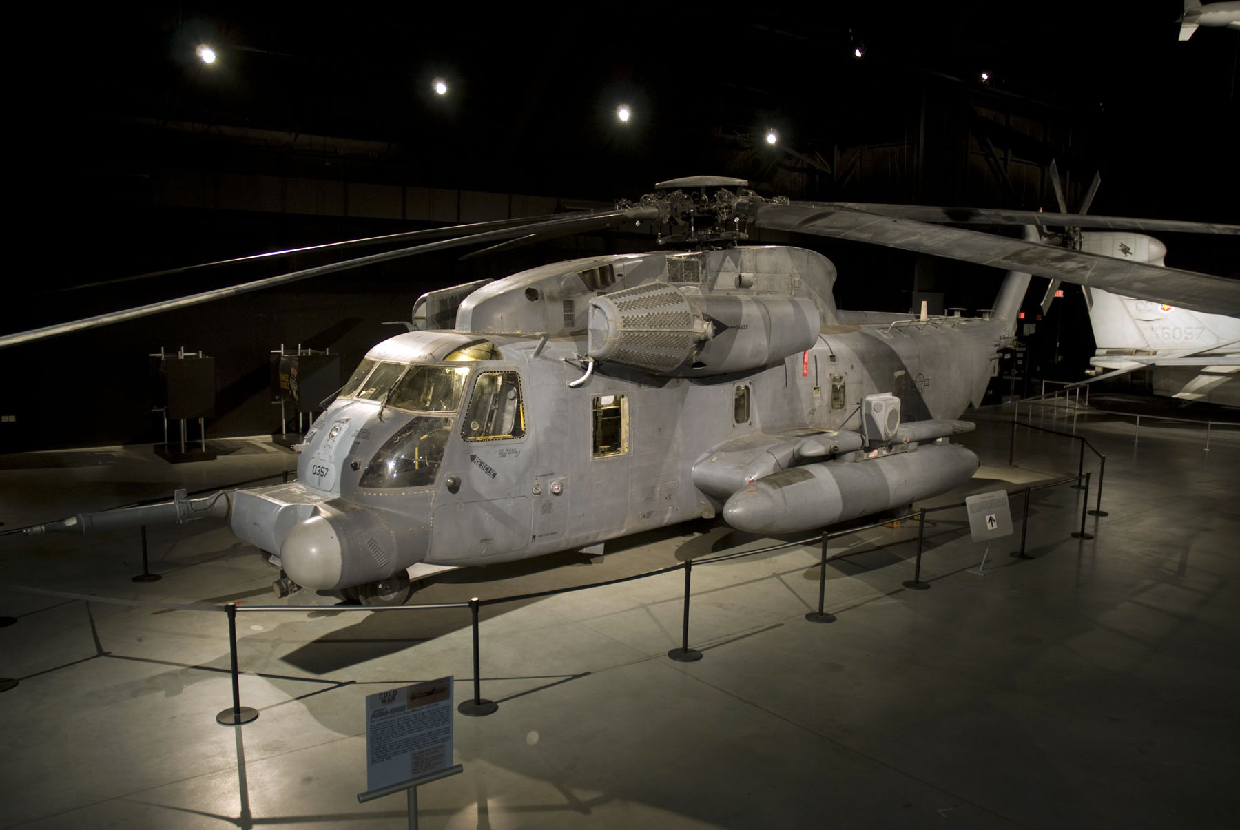 Sikorsky MH-53M Pave Low IV BuNo 68-10357, converted from HH-53B of the 40th Aerospace Rescue and Recovery Squadron which, with call sign Apple 1, participated in the Son Tay Raid